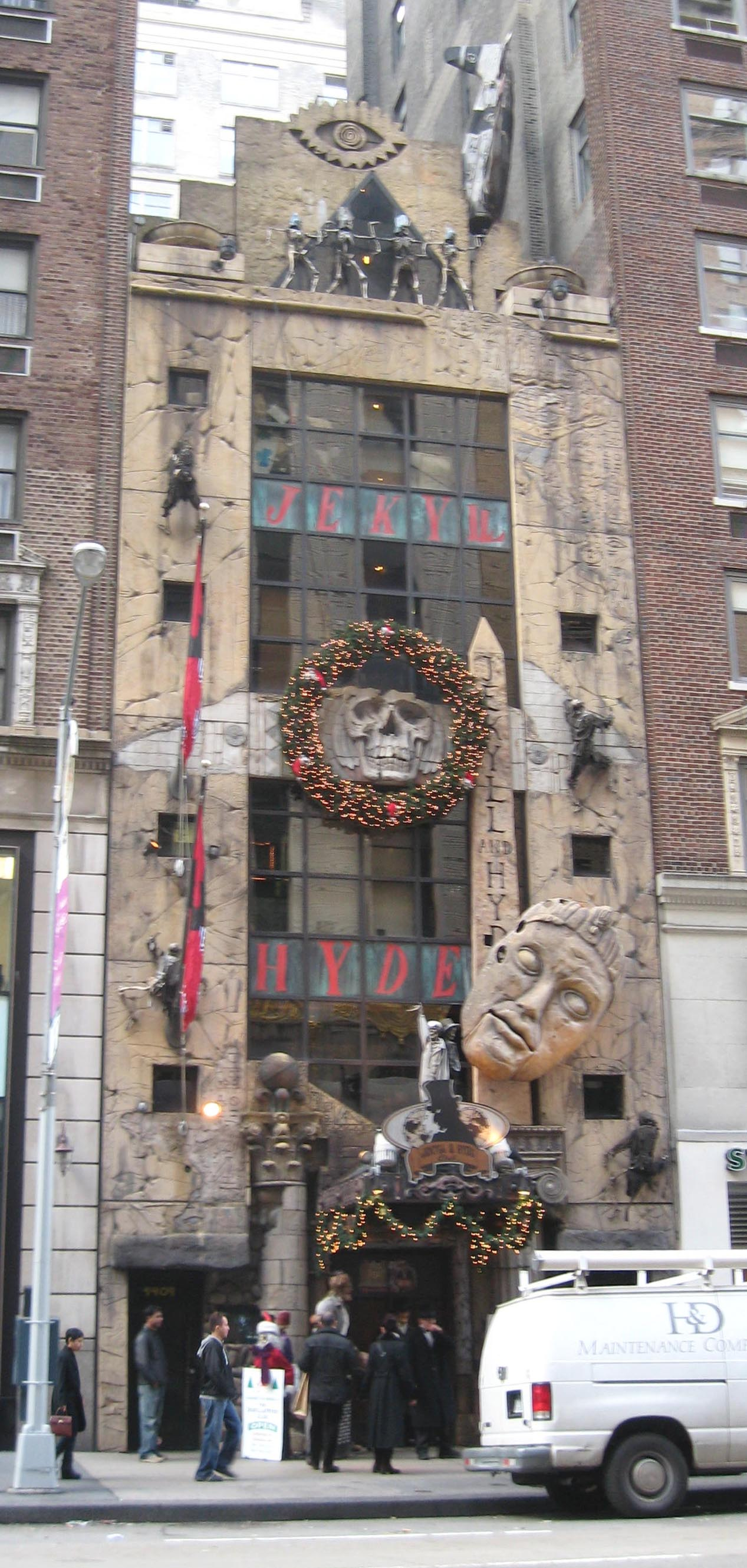 Looking west at Jekyll & Hyde Club. See also File:Jekyll n Hyde Club car jeh.jpg.